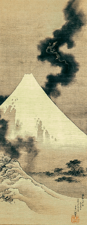 Dragon flying over Mount Fuji. Japanese Ukiyo-E artist Katsushika Hokusai (1760-1849, generally famous for his 36 Views of Mount Fuji). 1849